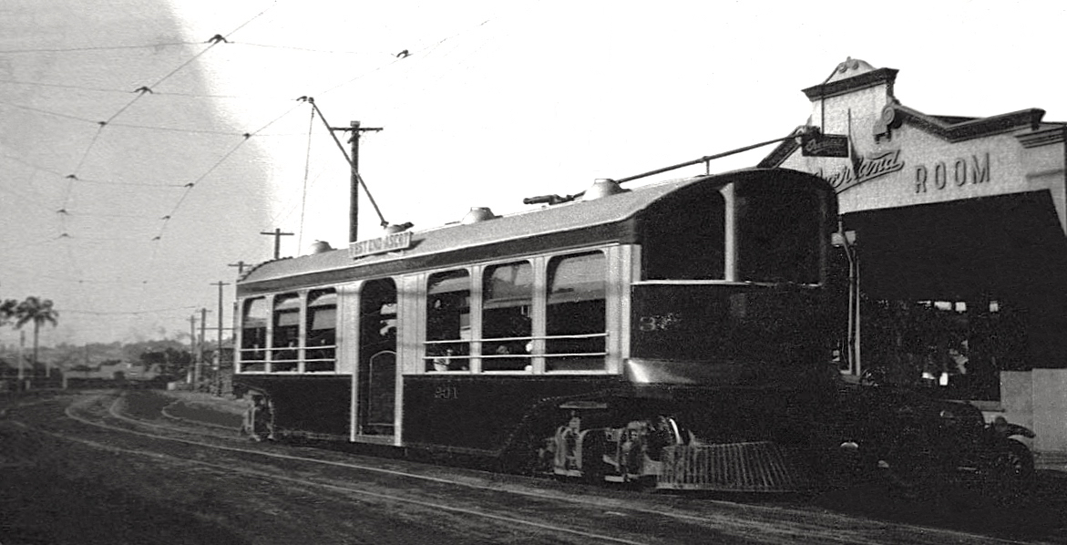 Description: Brisbane stepless tram No 301, built by The J.G. Brill Company in Philadelphia, USA. Entered service in Brisbane in 1914. Date: c.1920